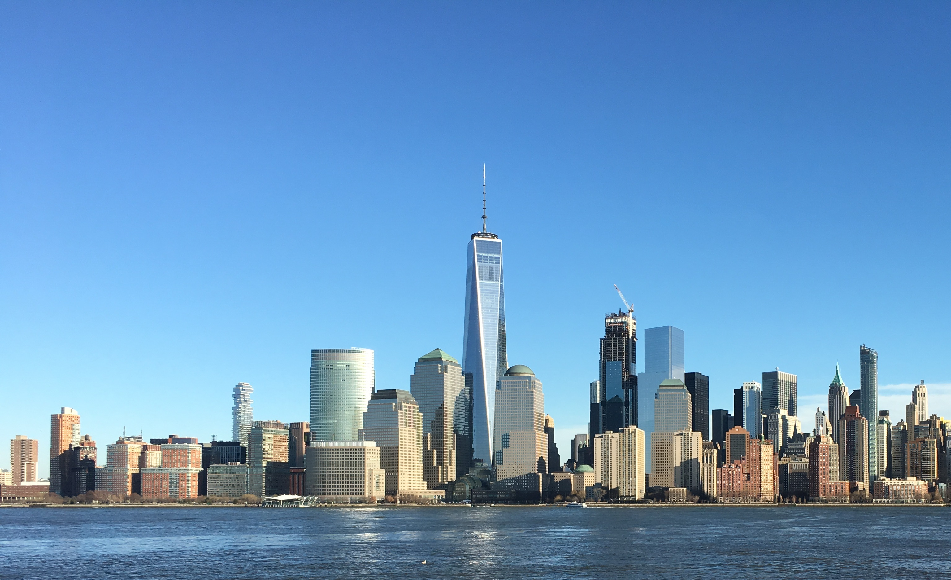 downtown nyc in late december 2016, from jersey city